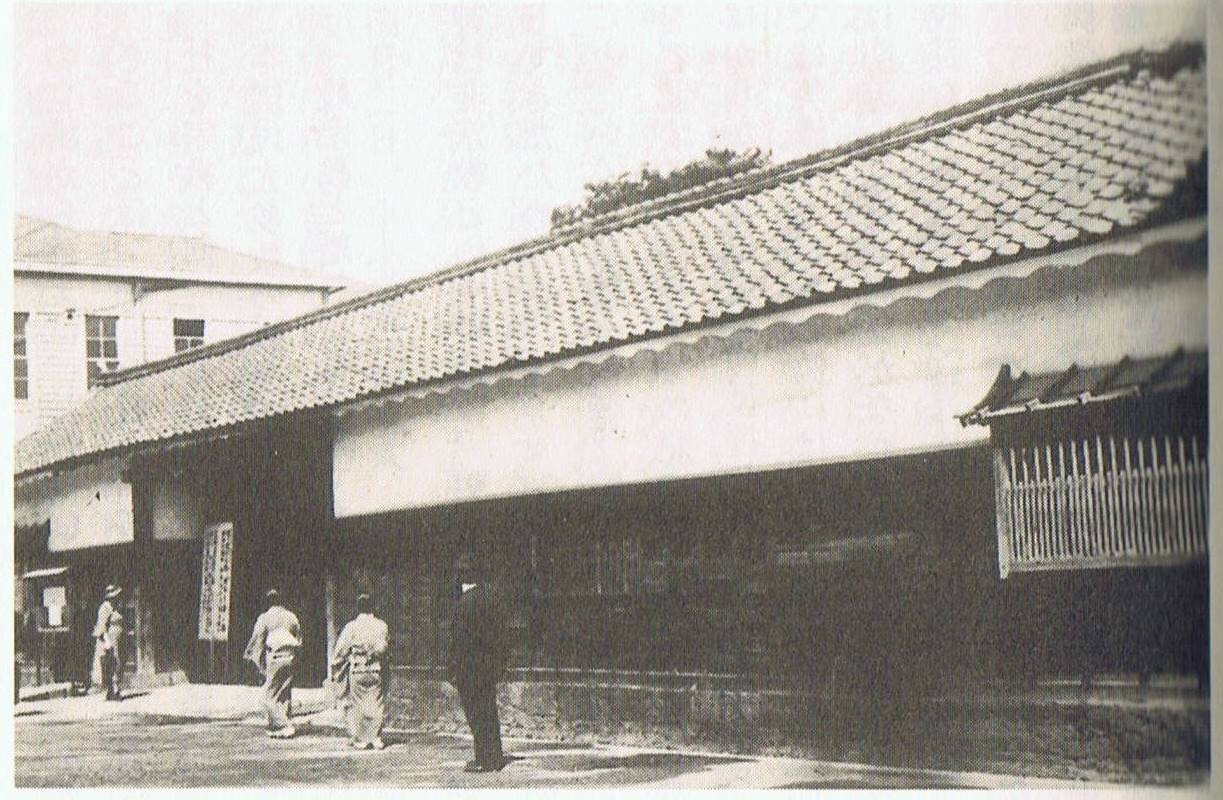 Mino Mission